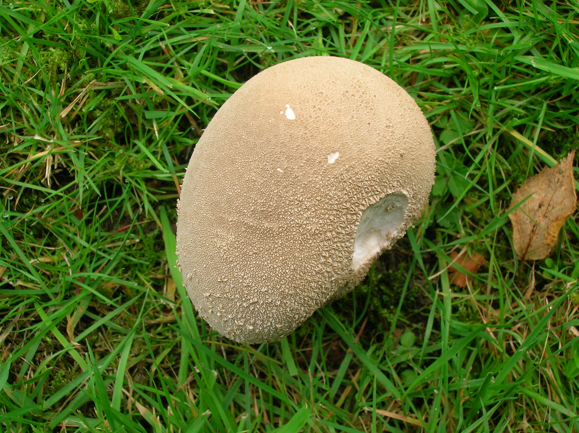 Handkea excipuliformis (Scop.) Kreisel, 1989 (Pestle Puffball), Kilbirnie Lochshore, North Ayrshire, Scotland.